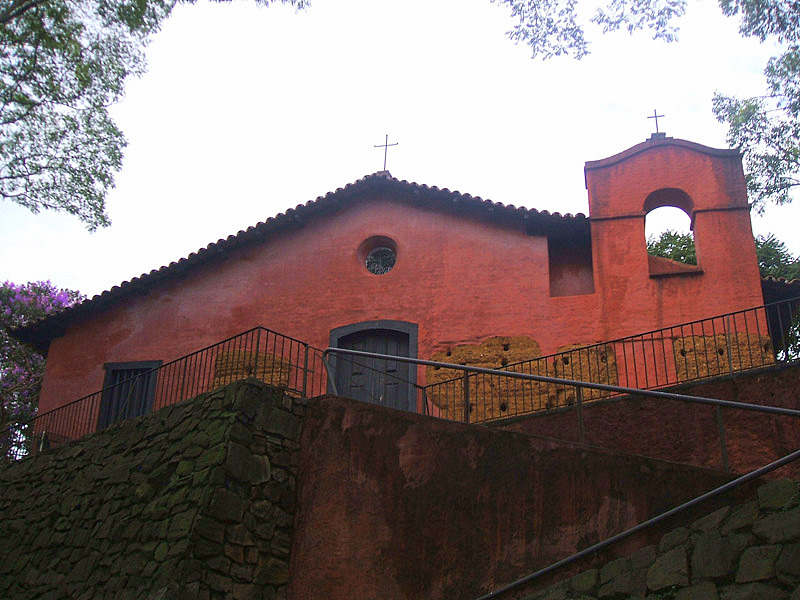 Morumbi Chapel, in São Paulo, Brazil